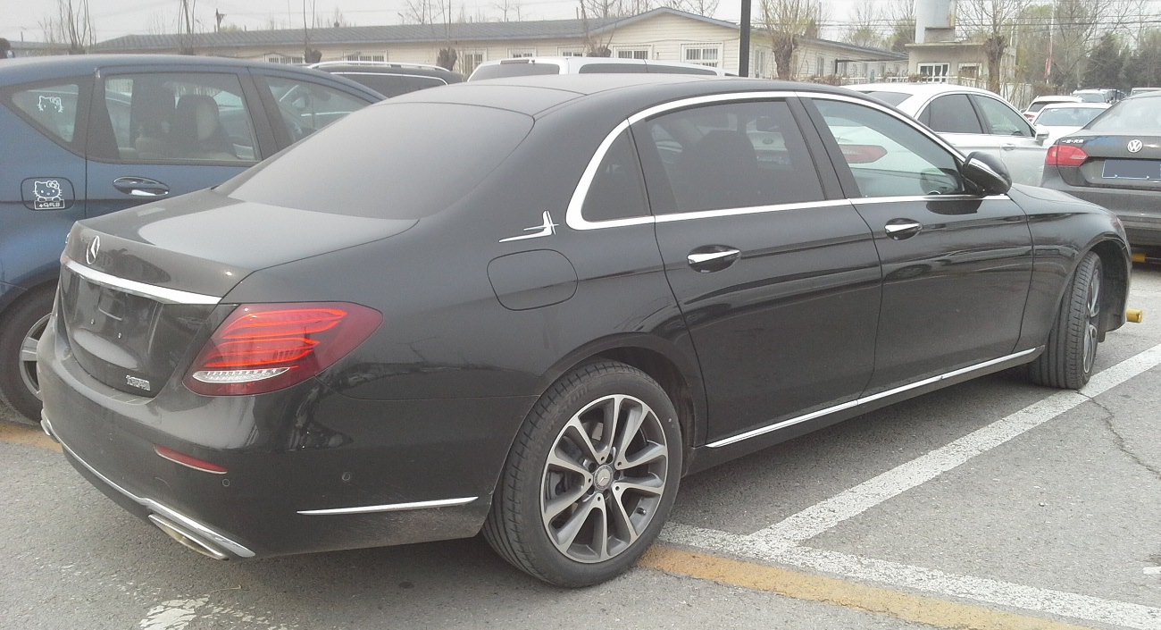 Mercedes-Benz E-Class V213 photographed in Beijing, China.